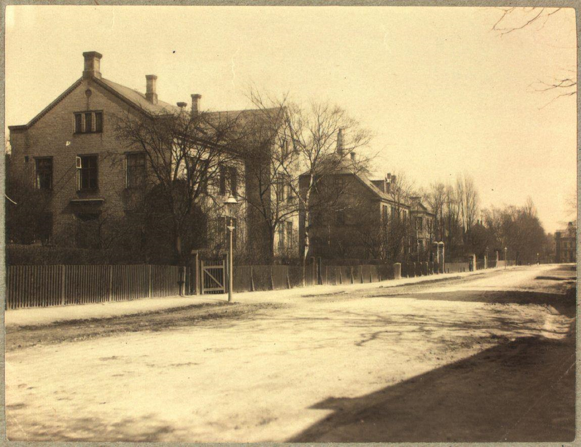 Amalievej - the northern house ow - as seen from Bülowsvej in Frederiksberg, Copenhagen, Denmark